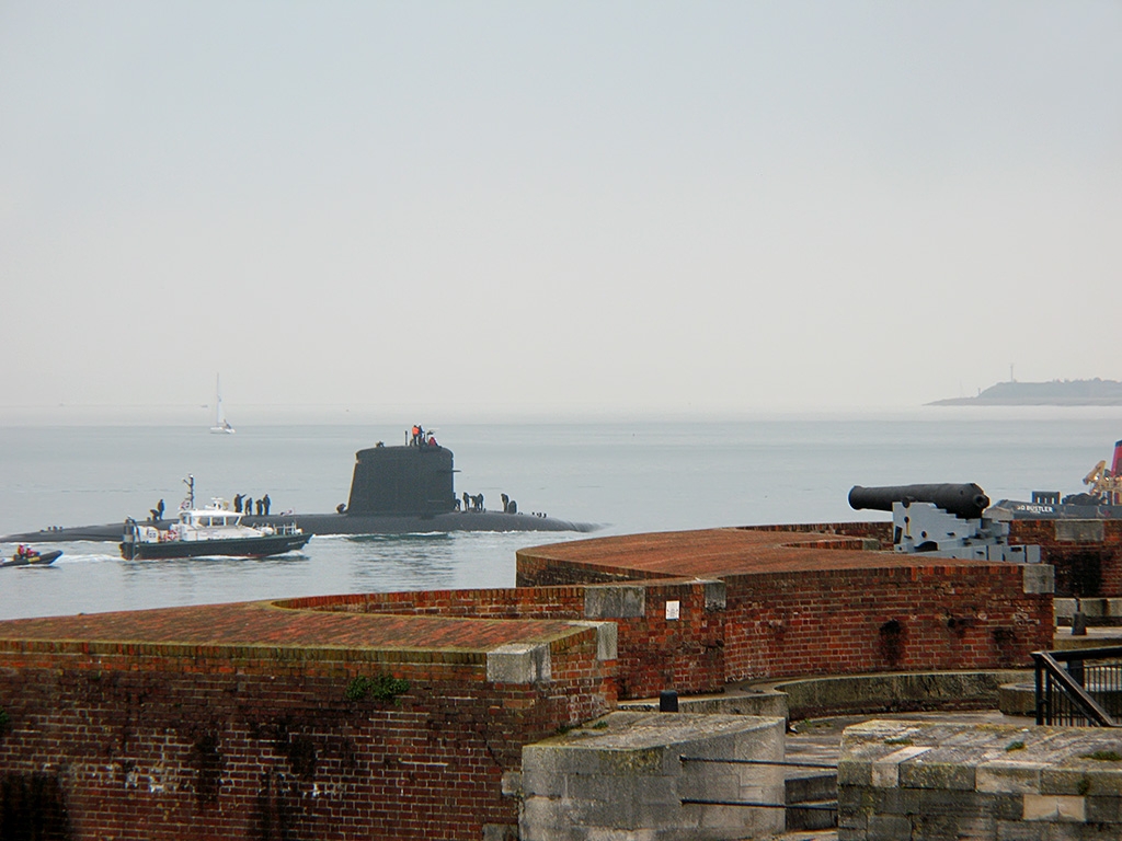 French Rubis class nuclear attack submarine Améthyste entering Portsmouth Naval Base, UK, under the guns of Spitbank Fort and Henry VIII's Southsea Castle. Image uploaded by George.Hutchinson from a photograph taken and supplied by Brian Burnell. The photograph should be attributed to Brian Burnell.